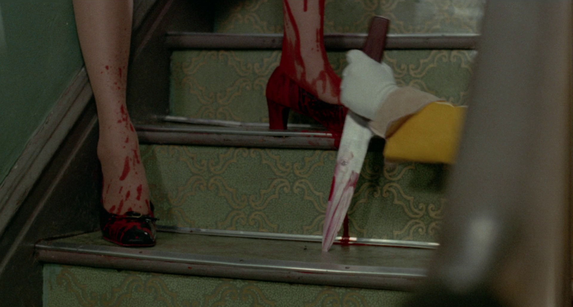 Screen capture from 1976 film Alice, Sweet Alice, from trailer under title Holy Terror.